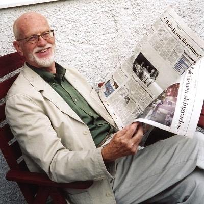 Birger Möller (Swedish politician and lecturer, former MP) reading newspaper.